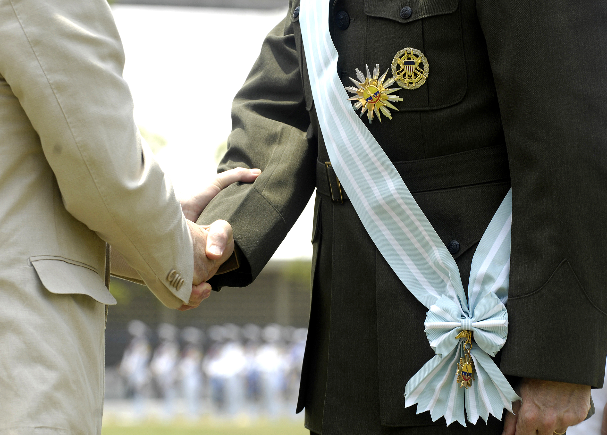 Colombian Minister of Defense Juan Manuel Santos shakes the hand of Chairman of the Joint Chiefs of Staff Marine Gen. Peter Pace after presenting him with the Cross of the Boyaca medal during a ceremony in Cartagena, Colombia, Sept. 13, 2007. The Cross of the Boyaca is the highest military award that can be conferred on a Colombian or foreign officer.